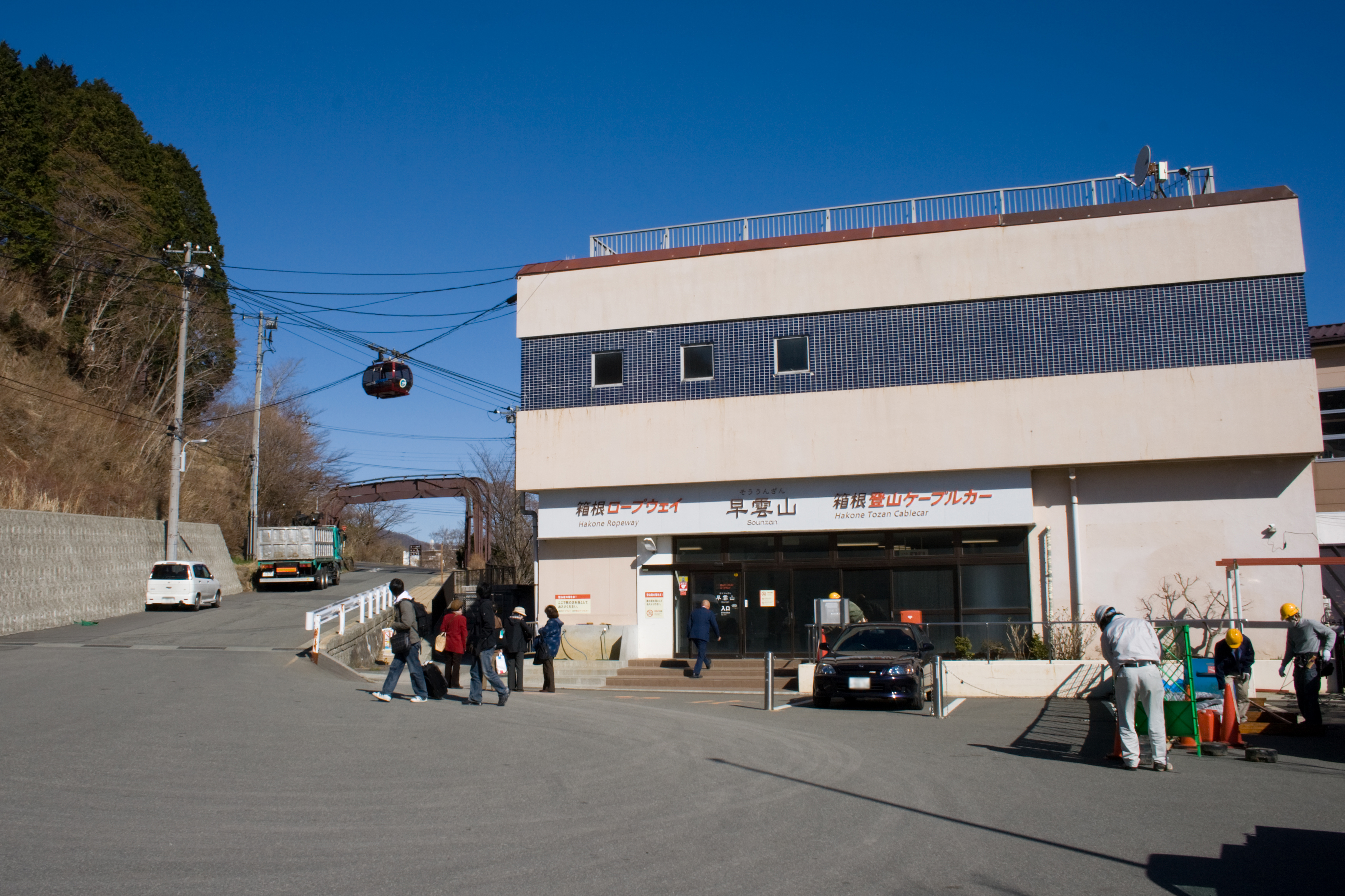 Sōunzan-Station, Hakone, Kanagawa, Japan.